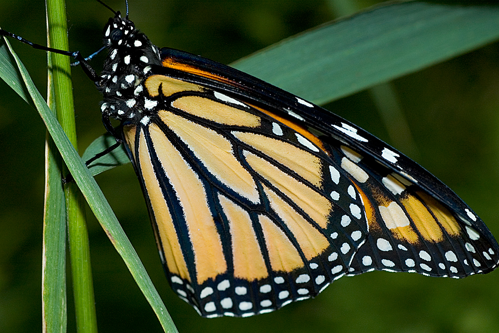 Shot at the Minnesota Zoo's Butterfly Exhibit.